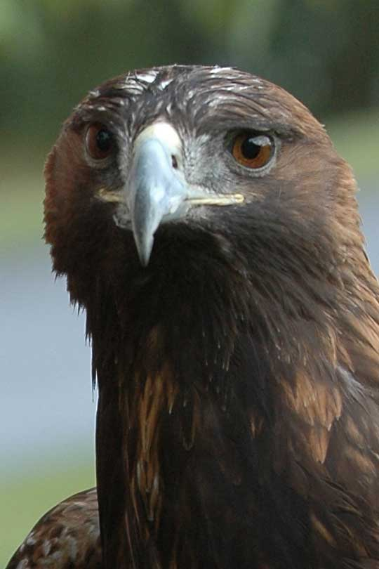 Golden Eagle in Calgary, Alberta (controlled situation). Photo by Chuck Szmurlo taken June 8, 2005 with a Nikon D70 and a Nikon 70-200 f2.8 lens.